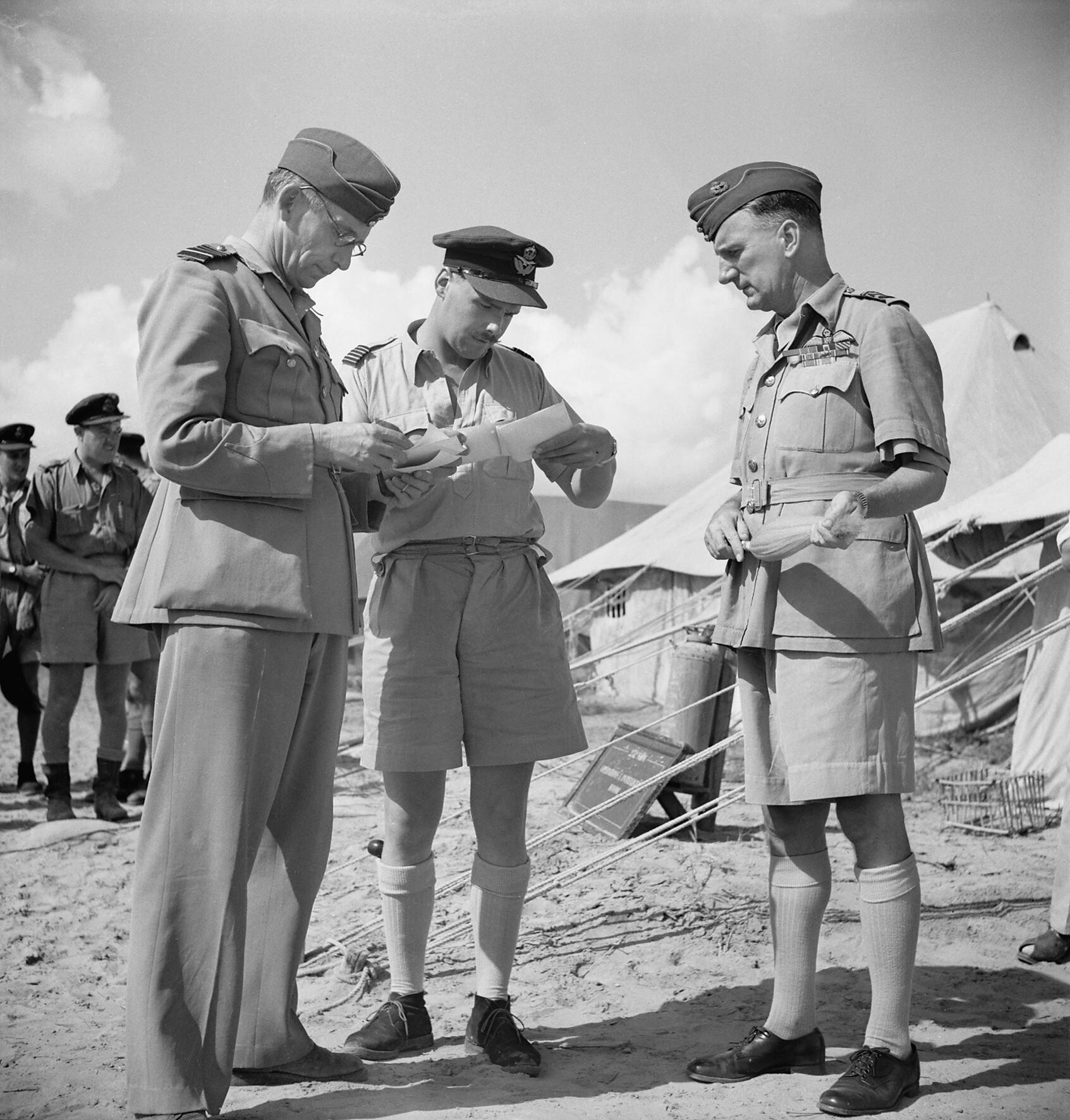 Royal Air Force- Operations in the Middle East and North Africa, 1940-1943. Air Chief Marshal Sir Arthur Tedder, Air Officer Commanding-in-Chief, Middle East (left), studies photographs taken during operations by No. 252 Squadron RAF being shown to him by the Commanding Officer, Wing Commander P H Bragg at Idku, Egypt, during Tedder's extended visit to the Western Desert Air Force and No. 201 Group units prior to the Alamein offensive. Air Vice-Marshal L H Slatter, Air Officer Commanding No. 201 (Naval Co-operation) Group RAF, looks on at right.